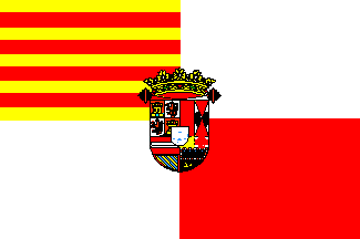 Flag of the city of Abanilla, Murcia, Spain